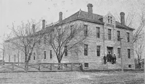 Wabaunsee County Courthouse, Alma, Kansas, USA